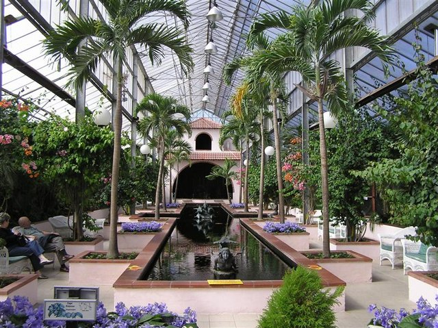 The interior of Palms Tropical Oasis. It is at Stapeley Water Gardens, Nantwich, Cheshire, England.